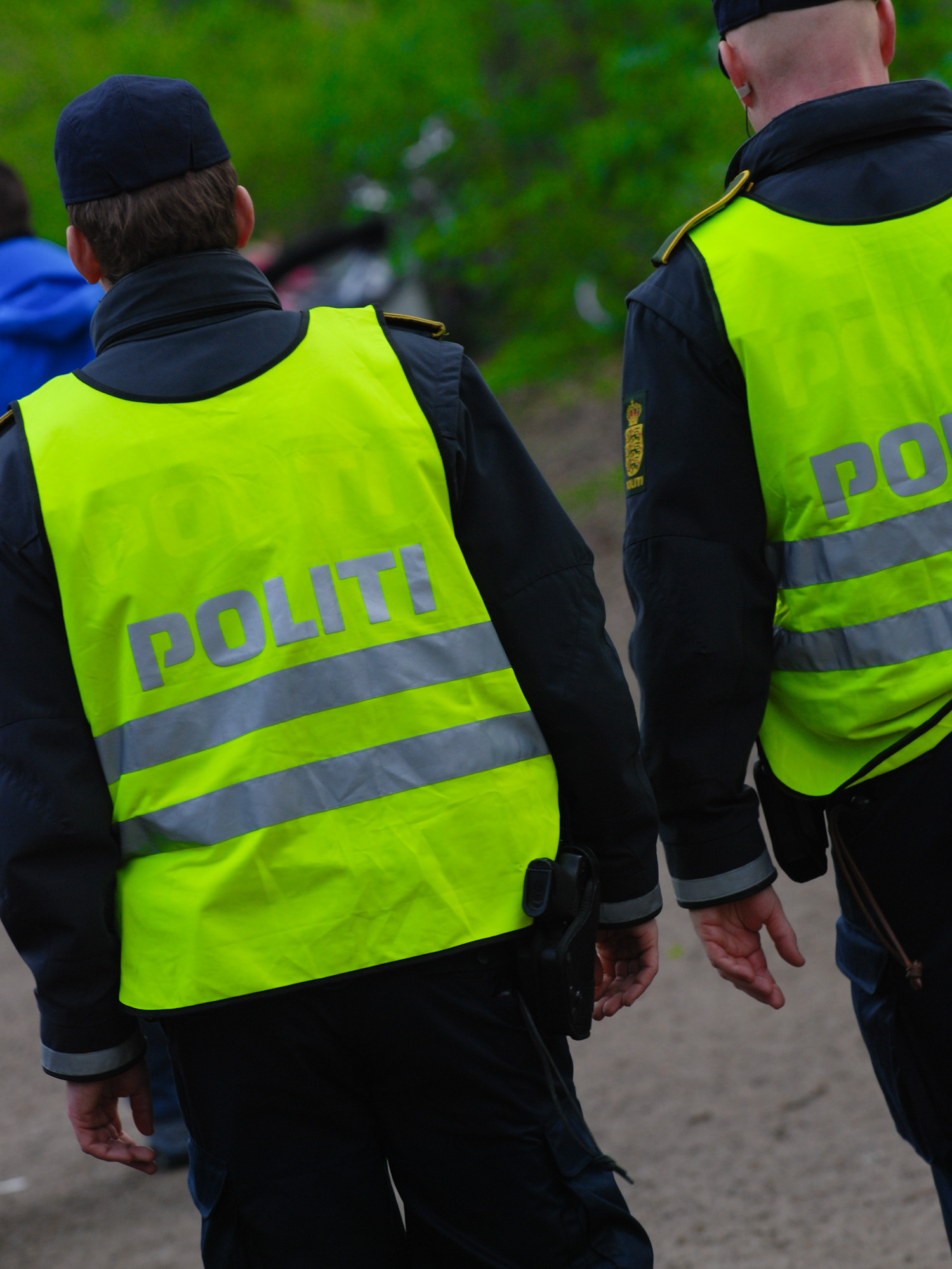 Fluorescent yellow wests, worn by Danish police officers. The text 'POLITI' (danish for police) is written with retroreflective material and the two stribes below are made of retroreflective material as well.